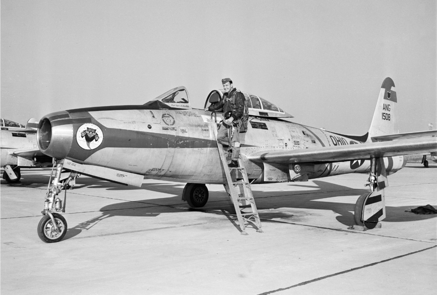 A U.S. Air Force Republic F-84E-25-RE Thunderjet (s/n 51-508) from the 162nd Fighter Squadron, Ohio Air National Guard, with its pilot. The 162nd FS flew the Thunderjet from 1955 to 1957.